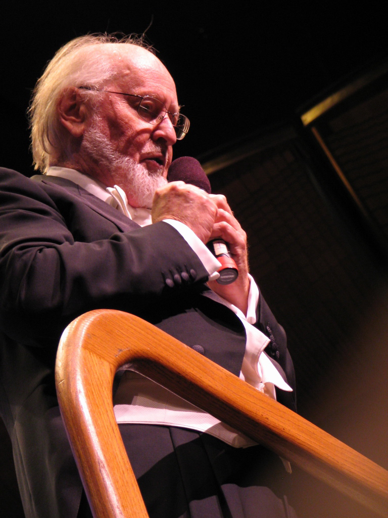 Photo by me of John Williams.